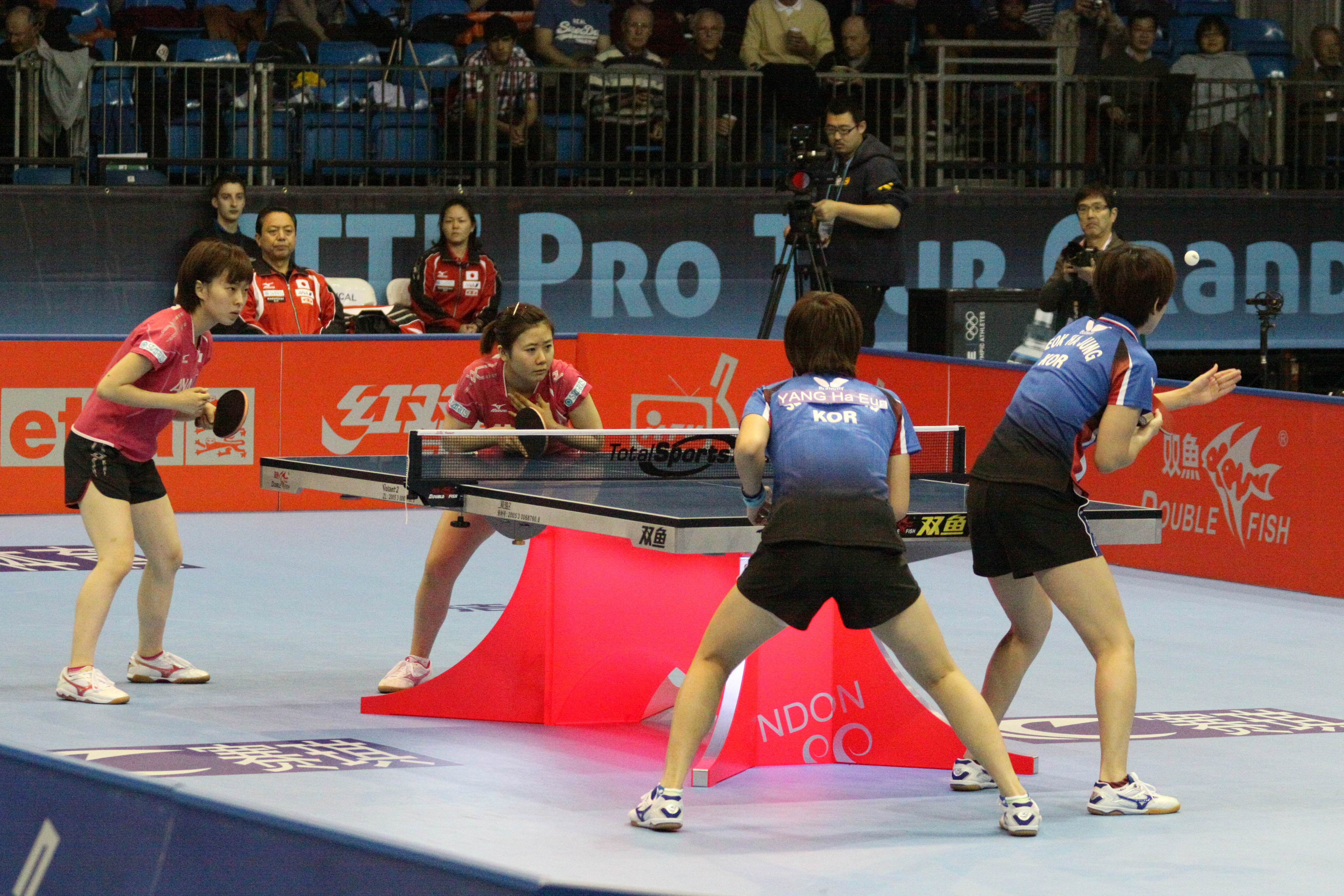 Kasumi Ishikawa (on the left) and Ai Fukuhara during the Table Tennis Pro Tour Grand Finals at the ExCeL London on November 27-28, 2011.